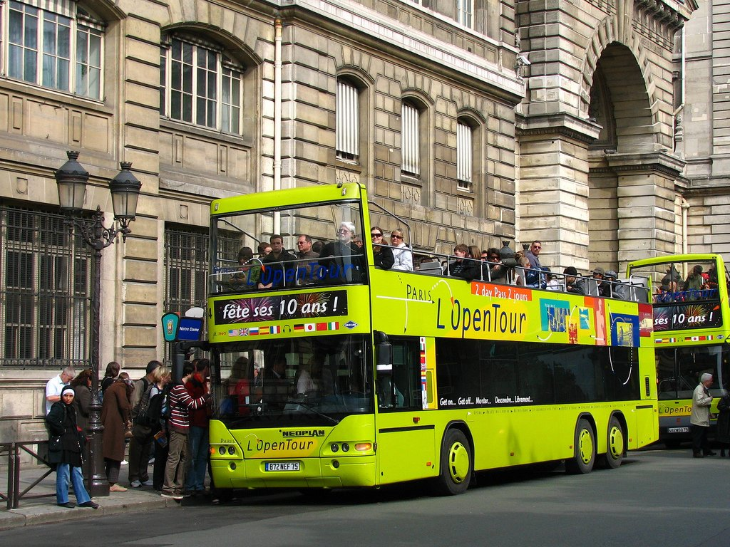 A bus of Open Tour in Paris.